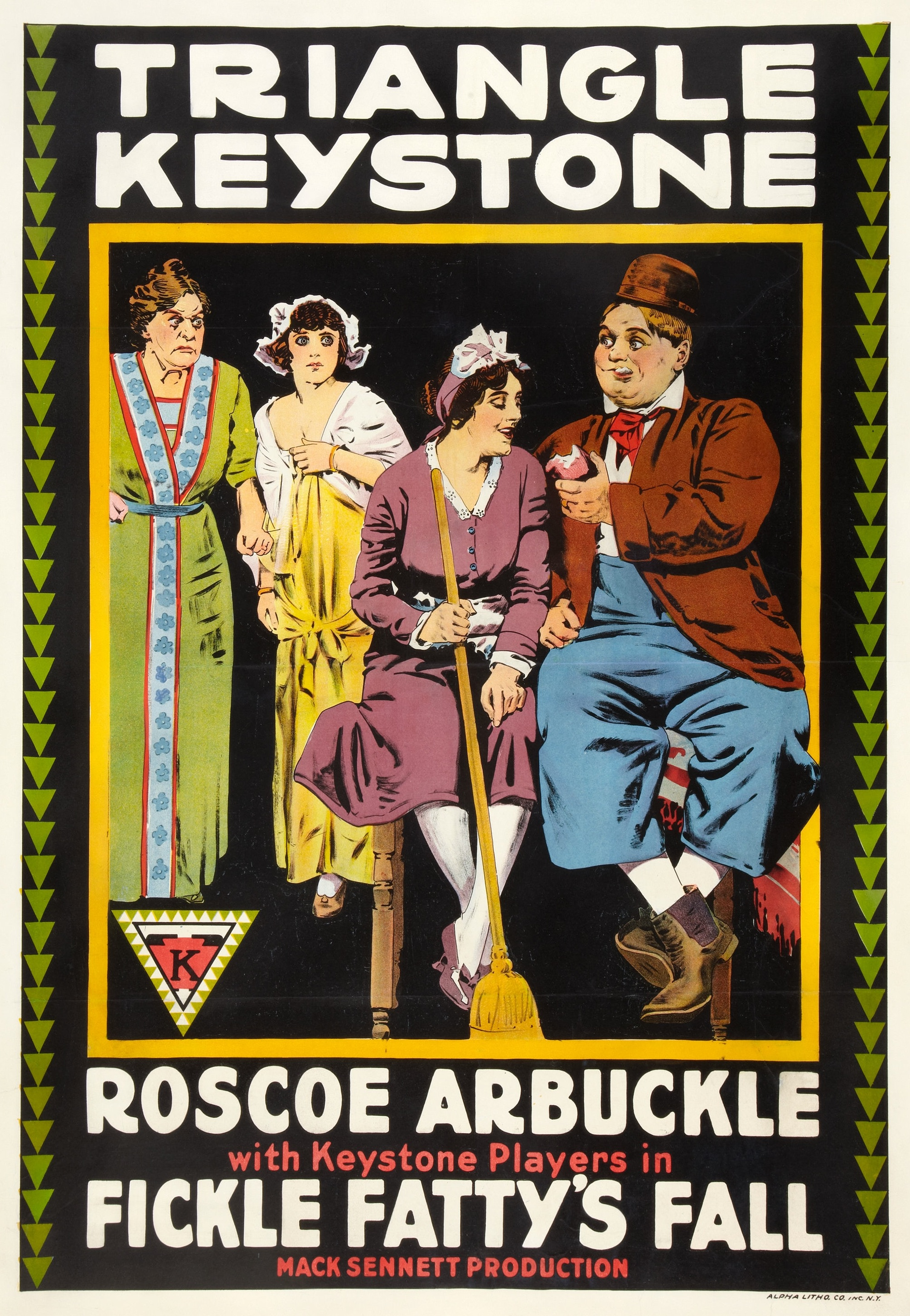 Fickle Fatty's Fall is a 1915 short comedy film directed by and starring Fatty Arbuckle. This is a movie poster for the film.